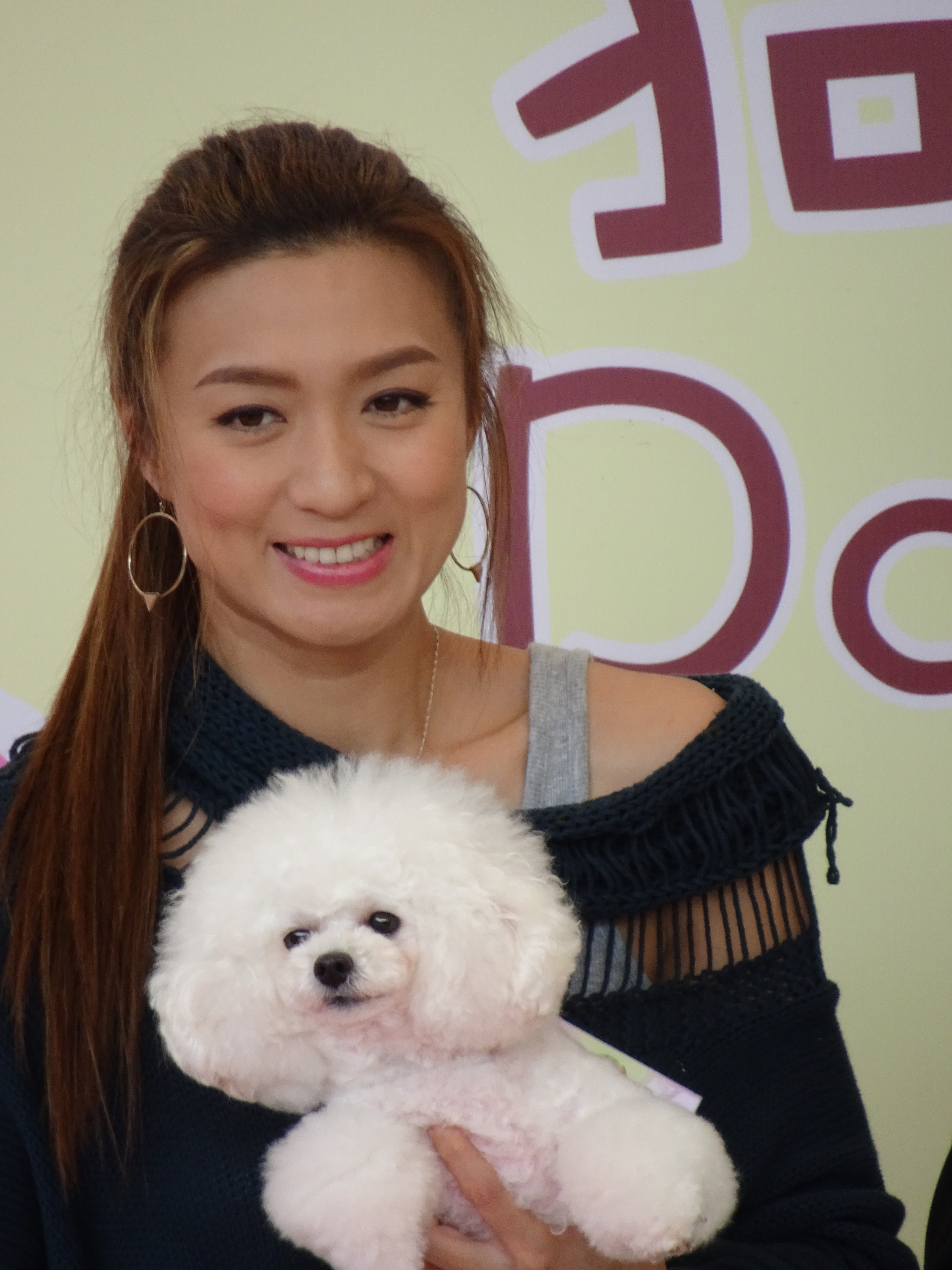 Claire Yiu (20 Jan 2018, Dog Adoption Carnival, Lai Chi Kok Park Phase I)